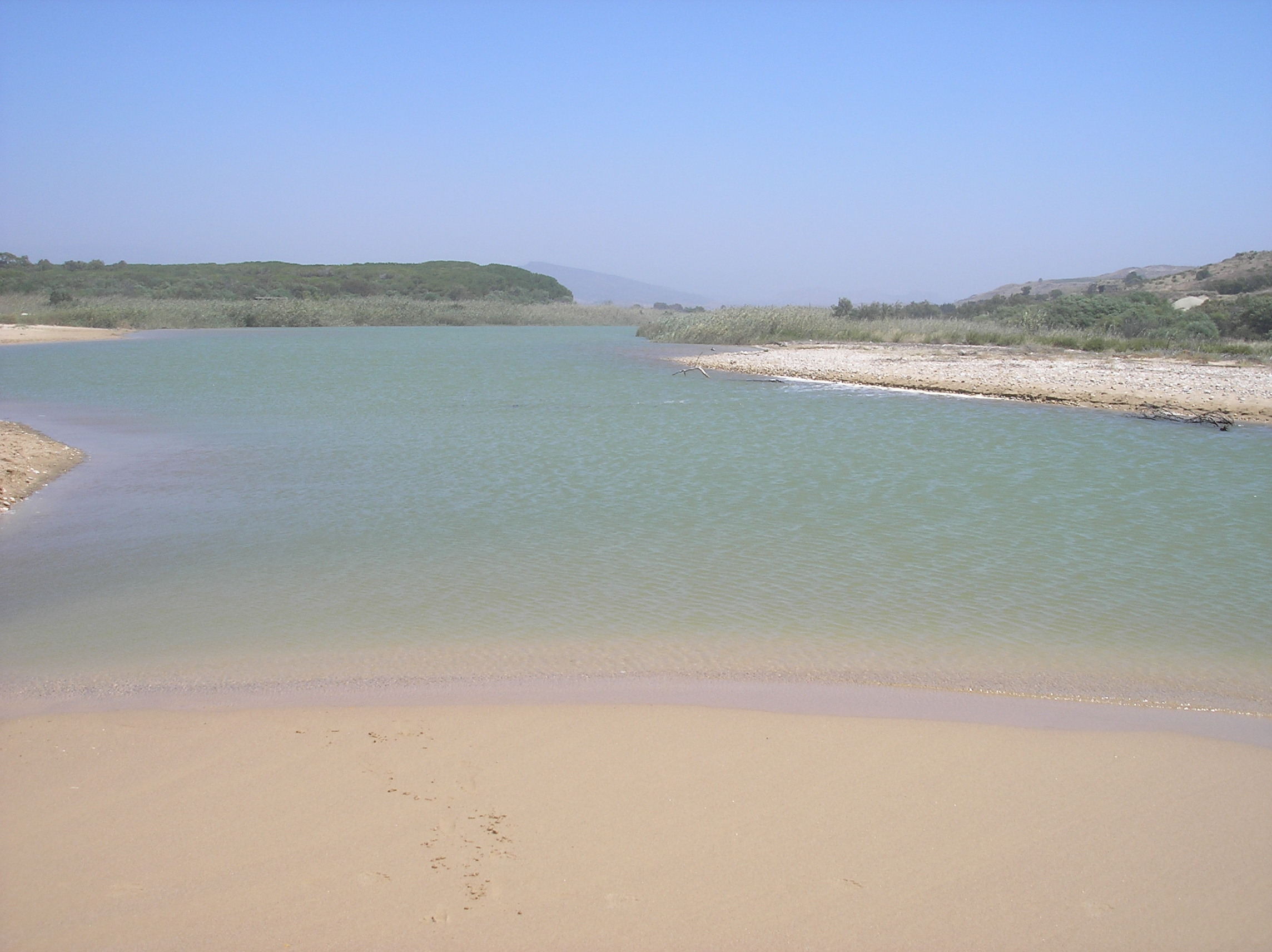 A picture of the mouth of the Platani river, Southern Sicily. The Platani was known in Antiquity as Halykos, and it was for a long time the border between Greek and Phoenician area of Sicily. The picture was taken by myself, and it's free for anyone who wants to use it.